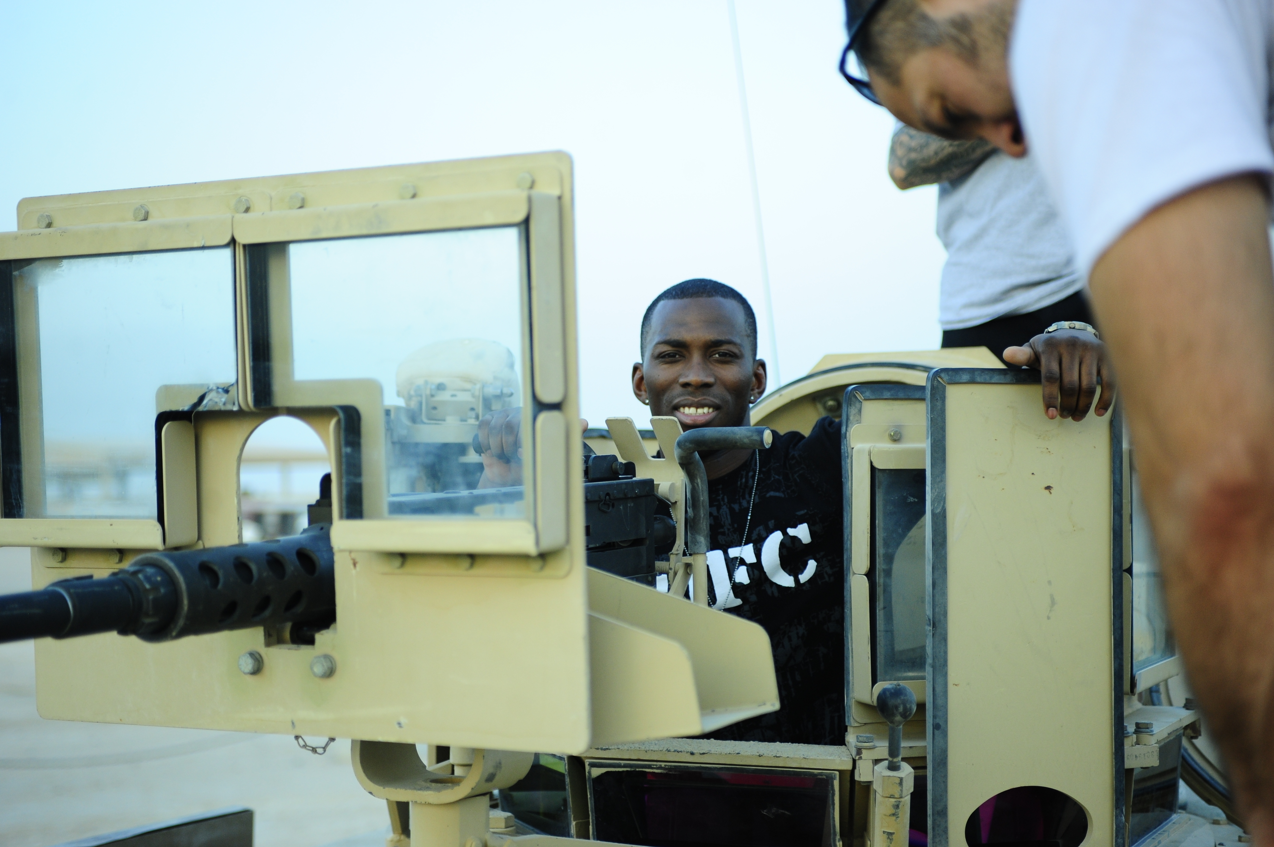 Ultimate Fighting Championship fighter Anthony “The Assassin” Njokuani takes time to pose for a picture while in the hatch of an M1A2 Abrams tank Friday, at Camp Buehring, Kuwait. Soldiers of the 1st Battalion, 15th Infantry Regiment, 3rd Armored Brigade Combat Team, 3rd Infantry Division, introduced Njokauni, and other UFC members, to their combat vehicles during an Armed Forces Entertainment Tour. The Sledgehammer Brigade is currently deployed in support of U.S. Central Command’s mission to provide peace and stability in the Middle East.